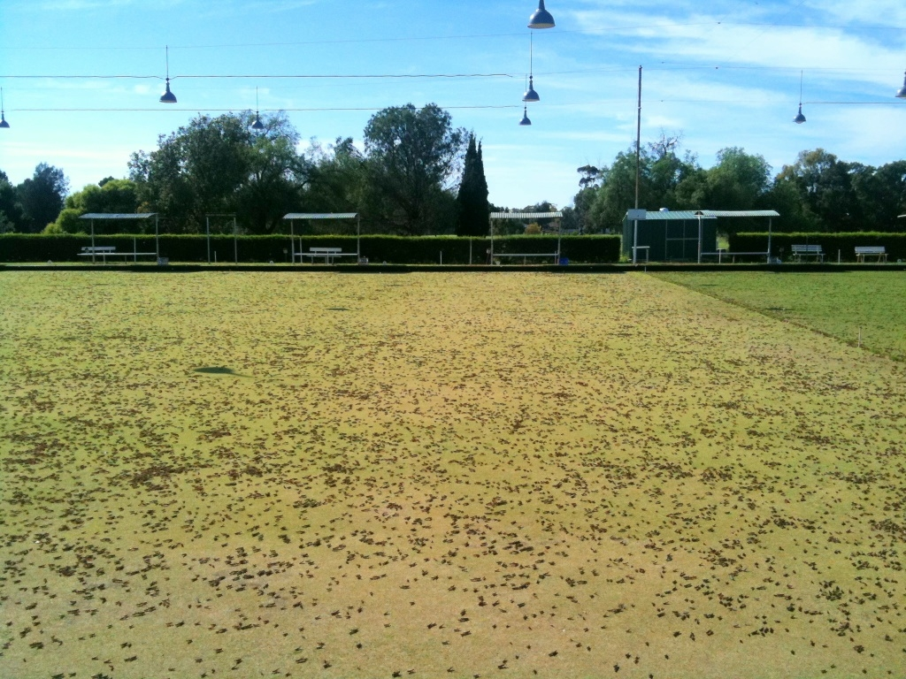 A small swarm of Chortoicetes terminifera resting on a bowling green in Berrigan, New South Wales. The locusts are not quite mature at this stage.